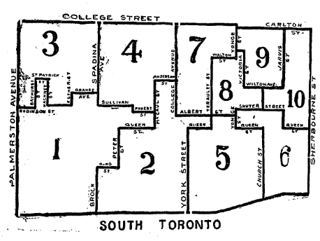 Map of the provincial riding of South Toronto, first used in the Ontario election of 1894.